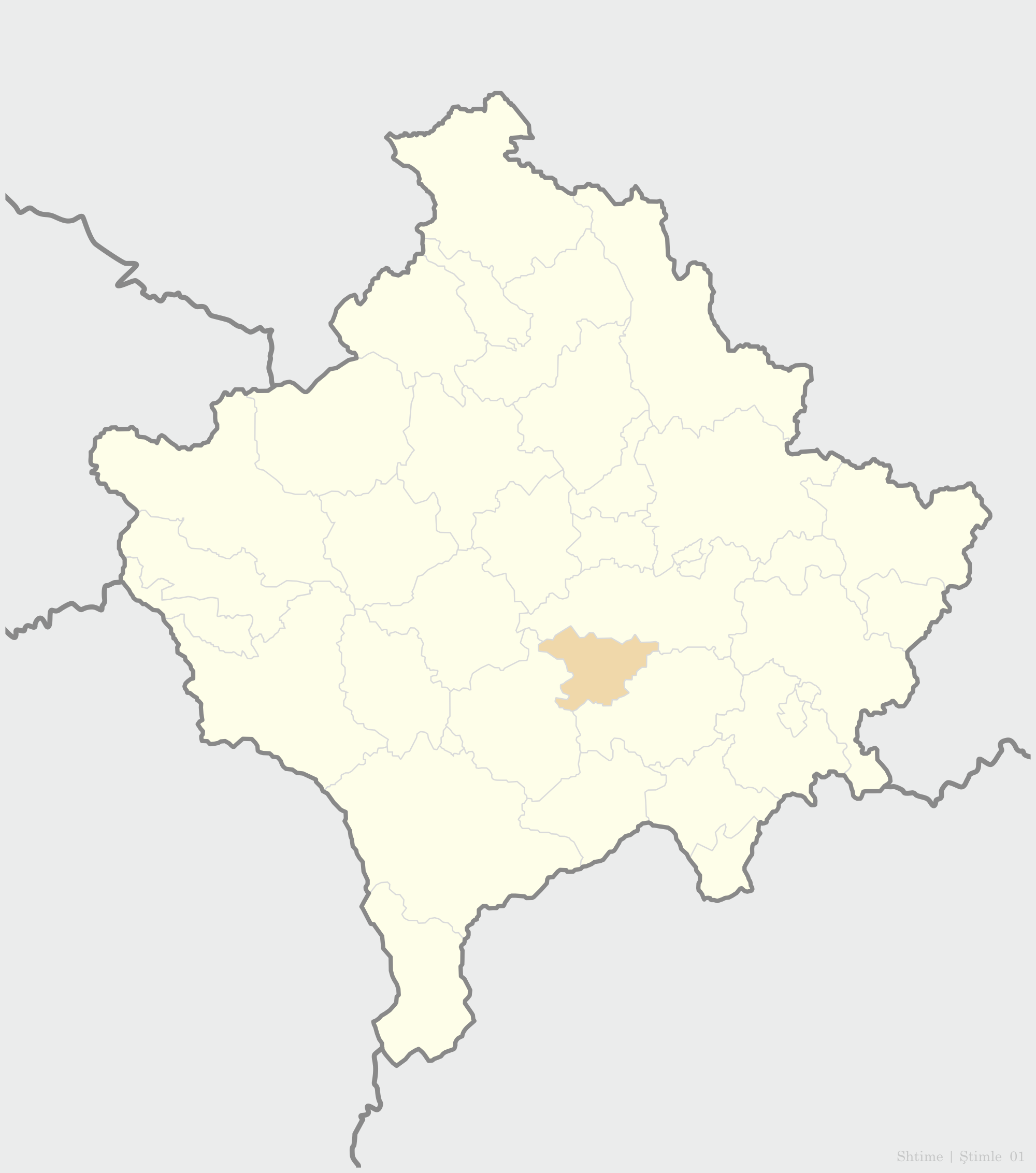 Municipality of Stimlje map